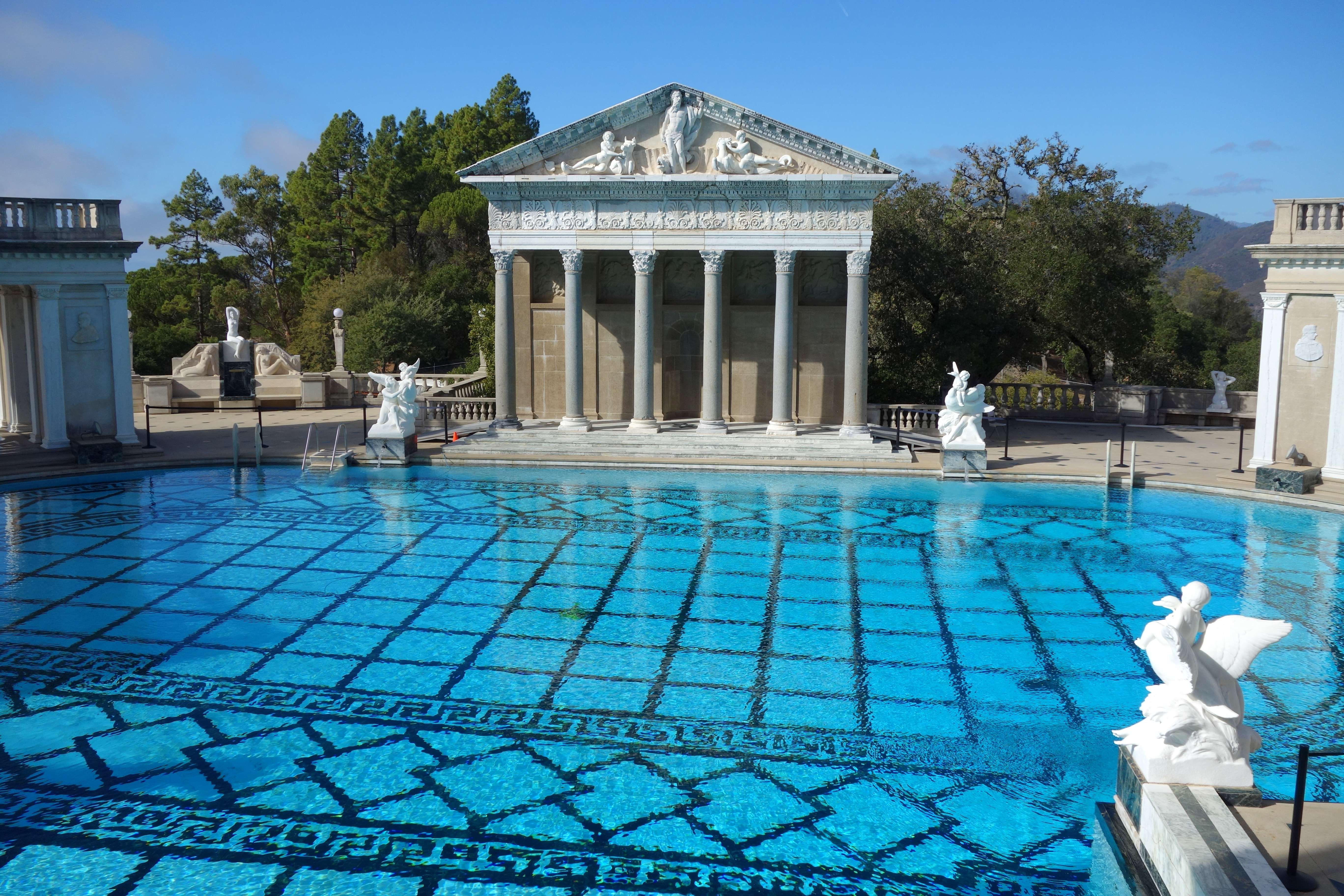 Artwork at Hearst Castle, San Simeon, California, USA. Photograph was permitted without restriction in and around the castle. All artwork is old enough so that it is in the public domain.